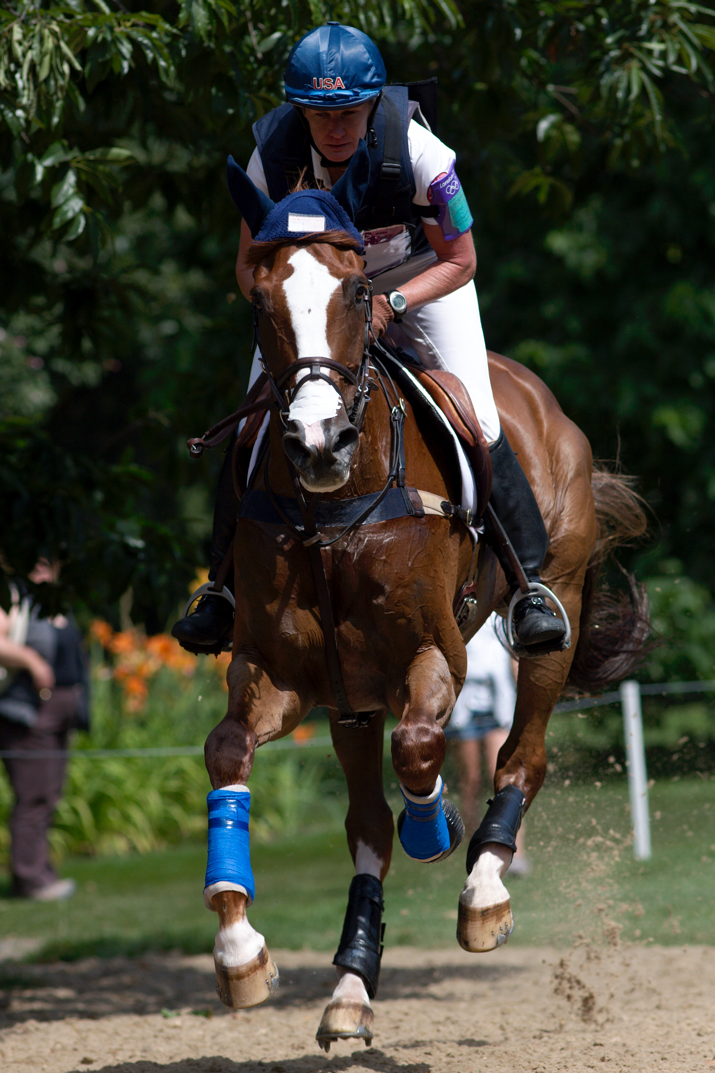 Karen O'Connor and Mr Medicott, competing for USA, during the cross-country phase of the Eventing during the 2012 Olympic Games in Greenwich Park, London.